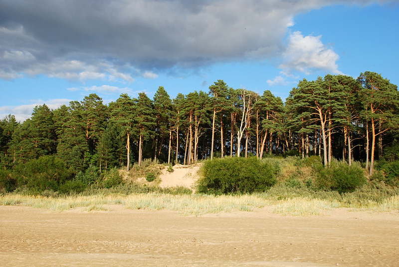 Estonia, Narva-Jõesuu